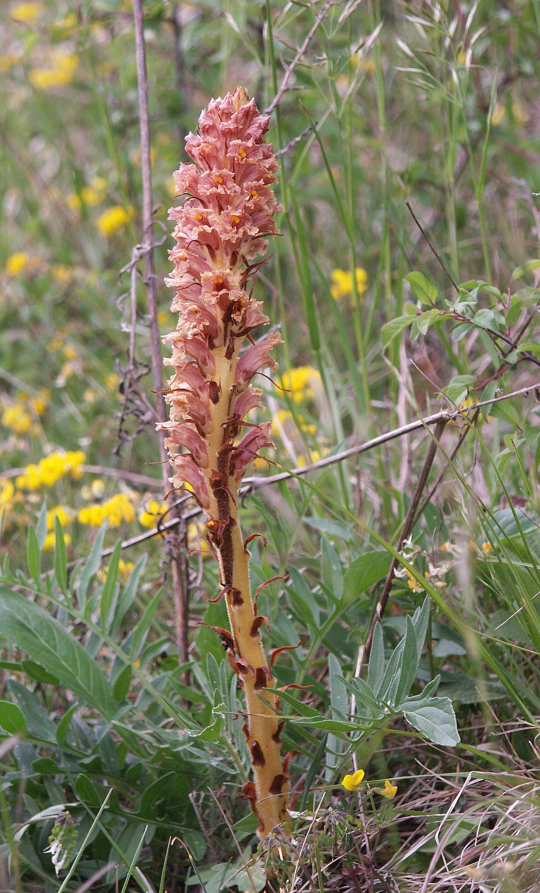 Orobanche elatior, Neckar-Odenwald, Germany